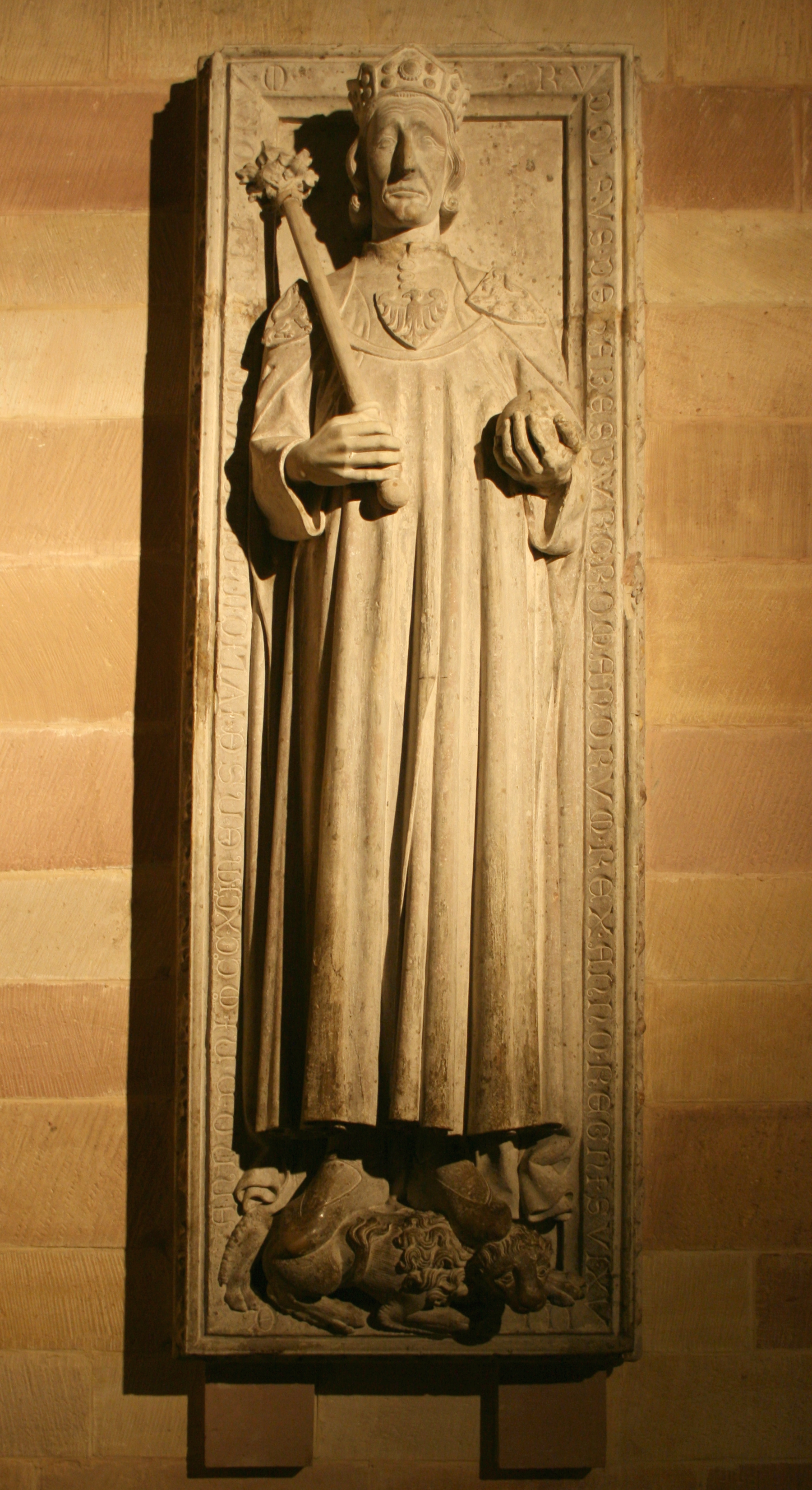 Tombstone of Rudolph I of Germany (ca. 1285) in the crypt of Speyer Cathedral.